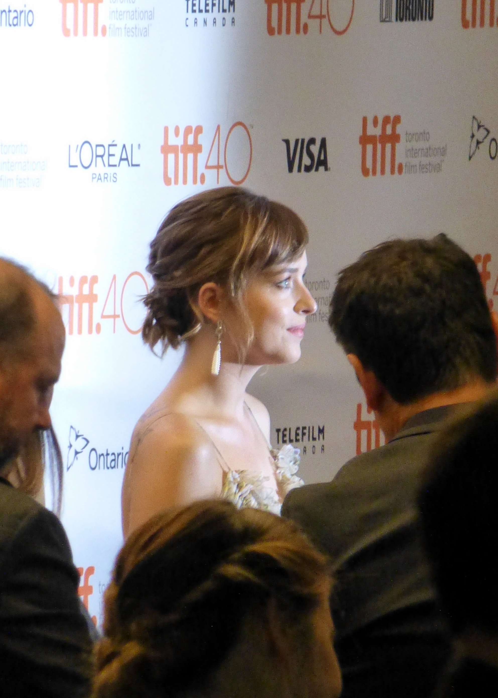 Dakota Johnson at the premiere of Black Mass, 2015 Toronto Film Festival